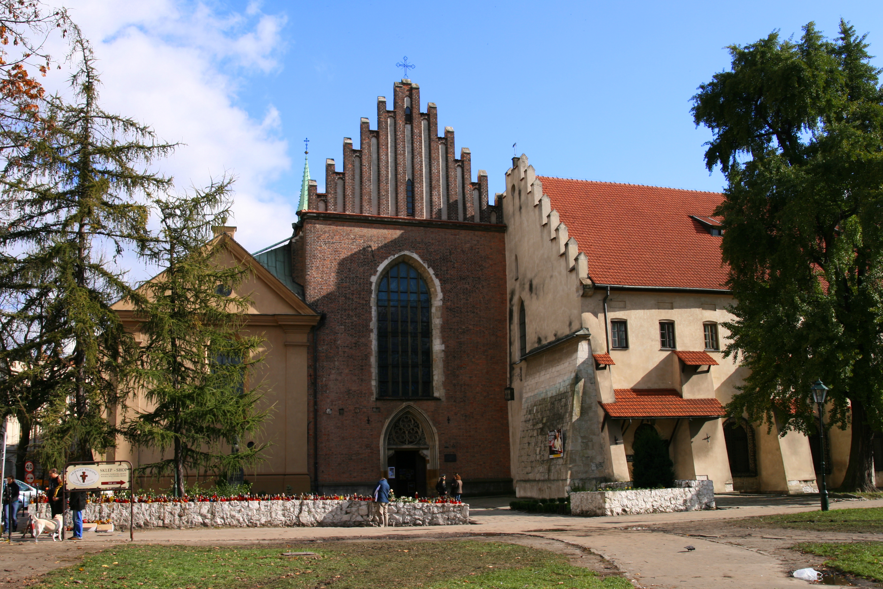 Church of St. Francis in Kraków (Poland).